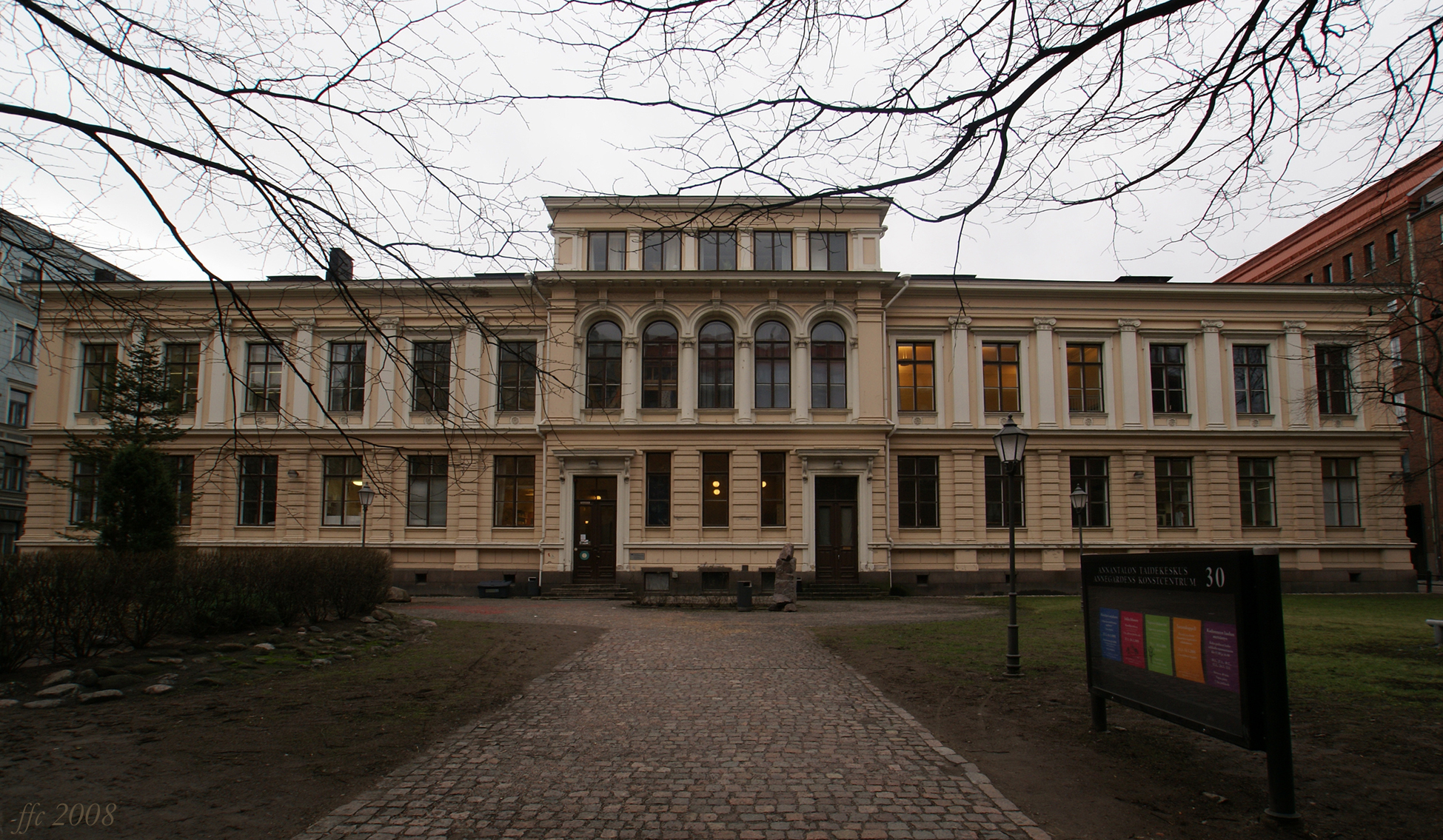 Annantalo arts centre for children and young people, Helsinki